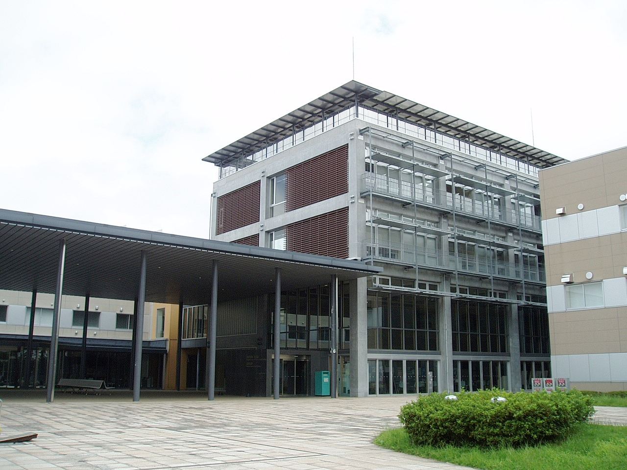 Research buildings at Taihaku Campus, Miyagi University, located in Taihaku-ku, Sendai, Miyagi, Japan.